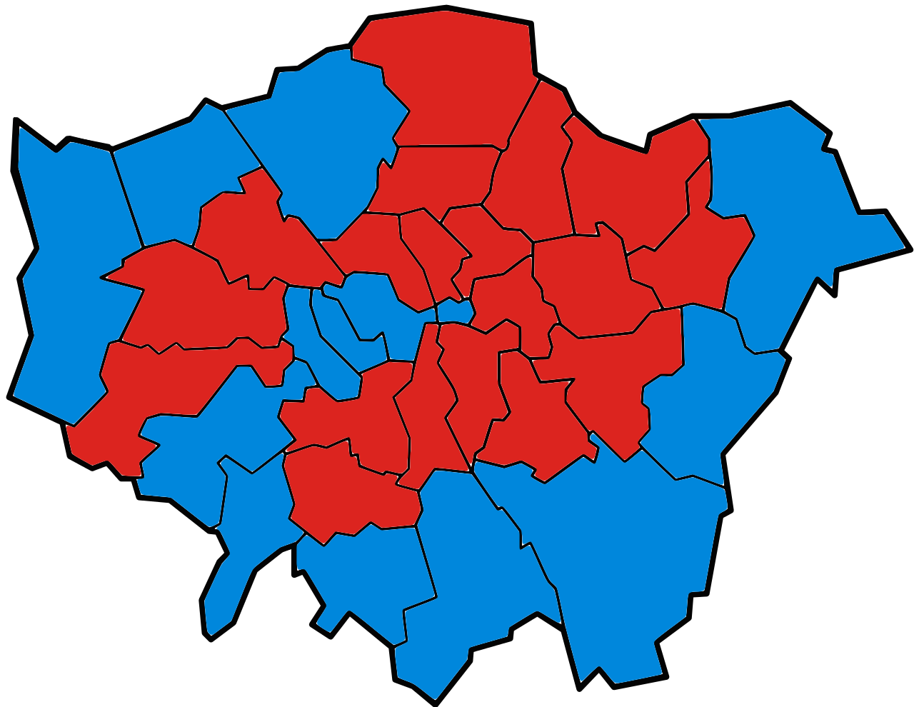 Winner of the 2016 London Mayoral election by borough. Red = Labour, Blue = Conservative.